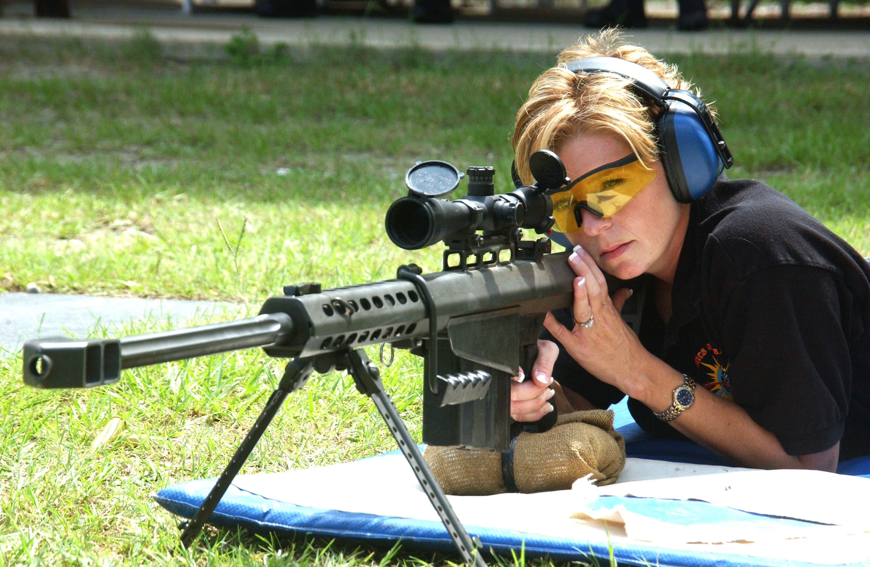 Master Sgt. Tanya Breed sights in a Barrett .50 caliber sniper rifle during training at Hurlburt Field, Fla., Sept. 13. Sergeant Breed demonstrated sniper capabilities for students at the U.S. Air Force Special Operations School's Dynamics of International Terrorism course, which offers students a basic awareness of the motivation, capabilities and threat posed by terrorist groups. Sergeant Breed is superintendent of operations at the school.